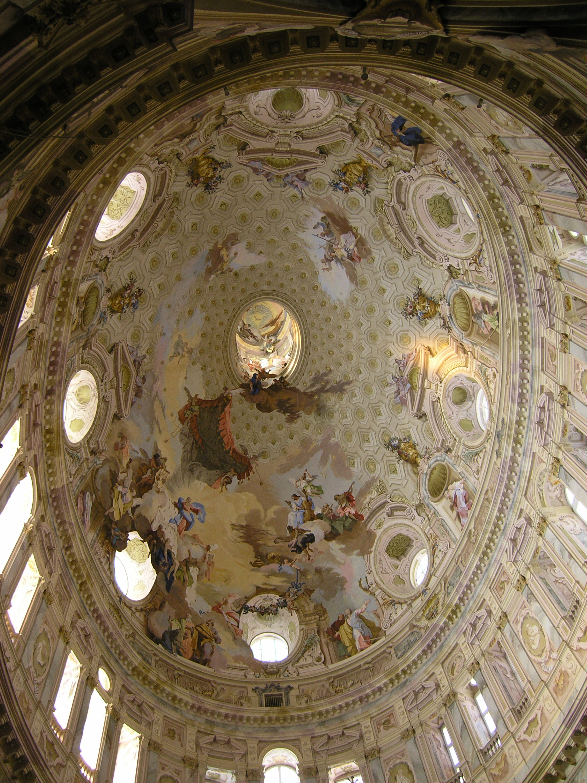 The Sanctuary of Vicoforte, Vicoforte (Italy)